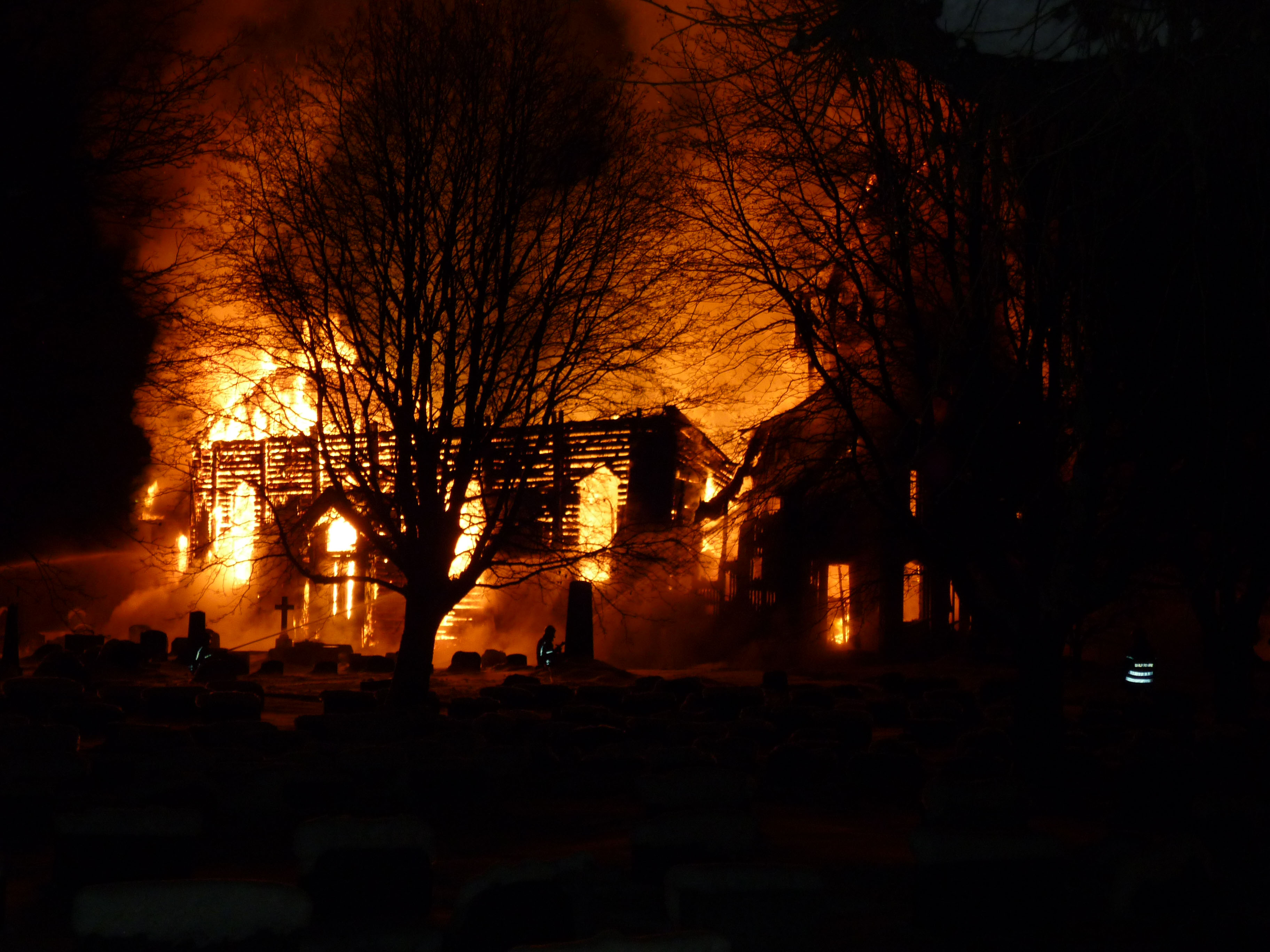 Hønefoss church at fire (2010-01-26)